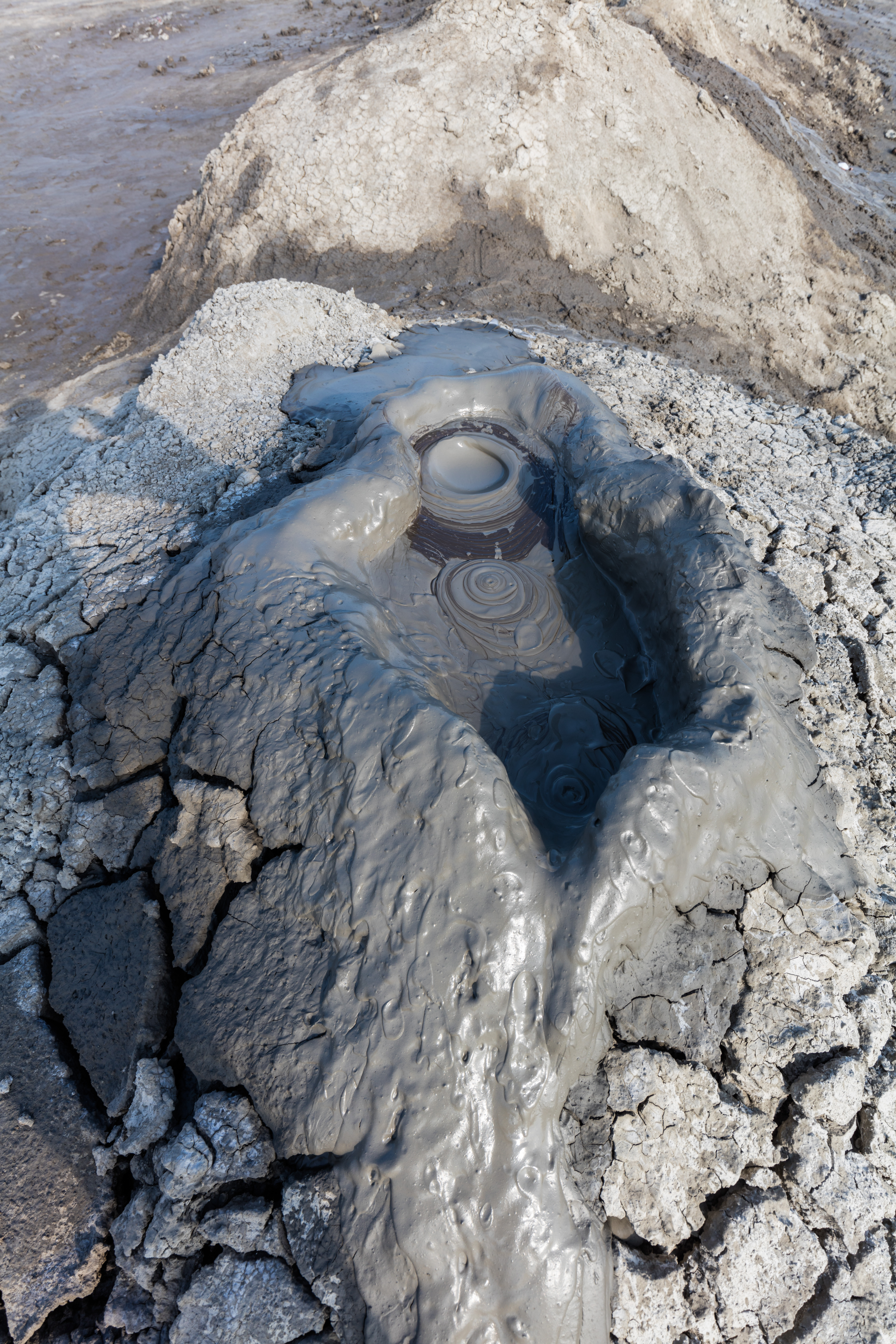 Mud volcanos, Qobutan National Reserve, Azerbaijan